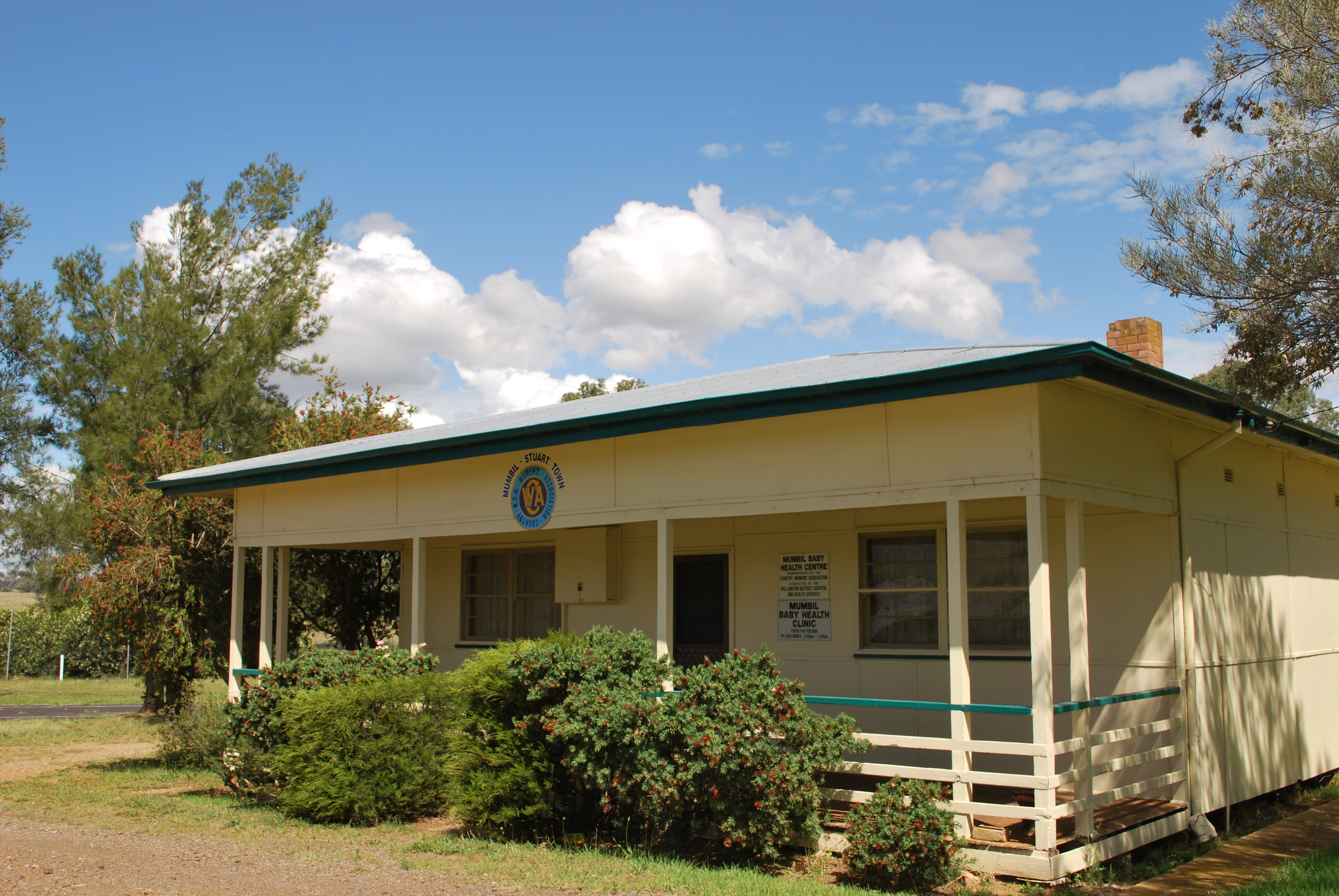 CWA Rooms at Mumbil, New South Wales